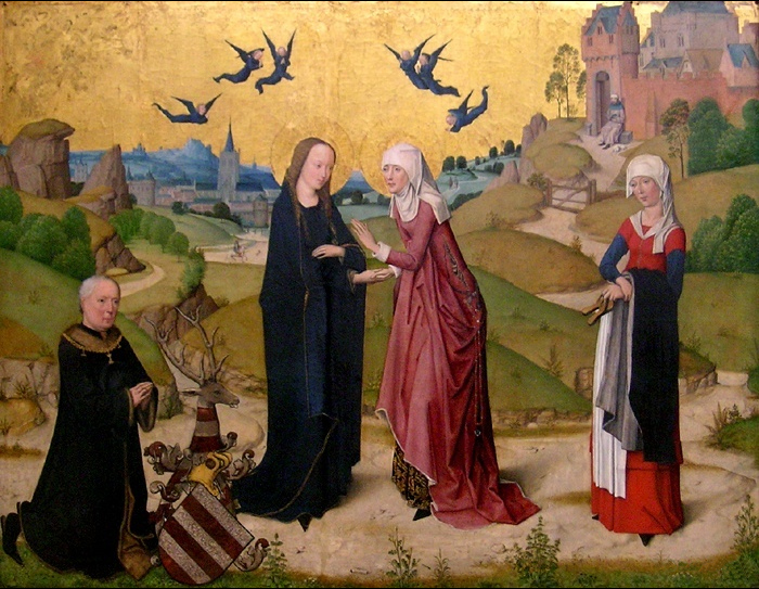 The visitation